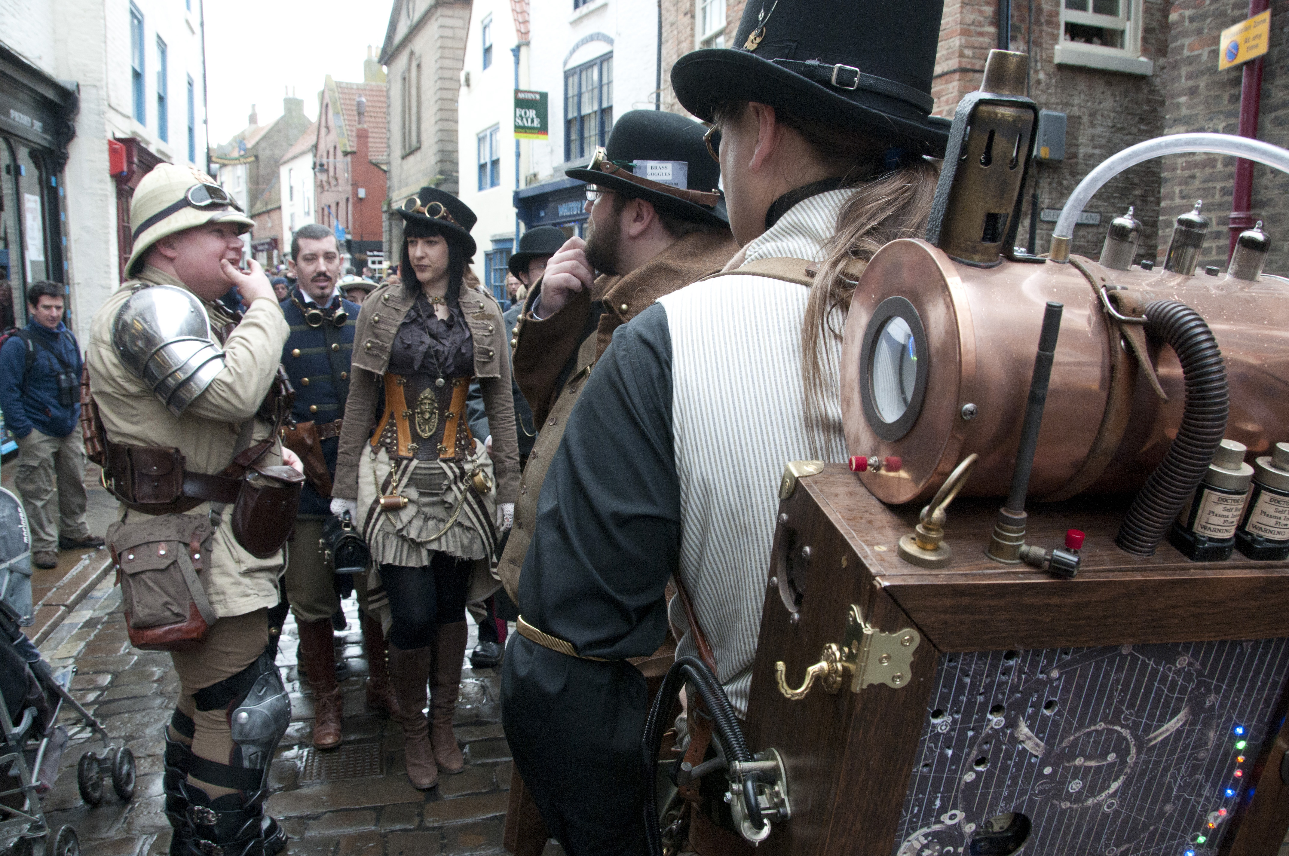 Goth weekends